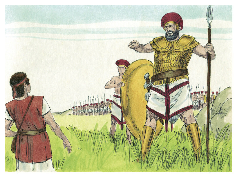 Biblical illustration of First Book of Samuel Chapter 17